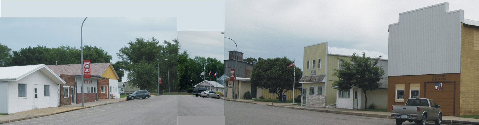 Definace Iowa composite photo